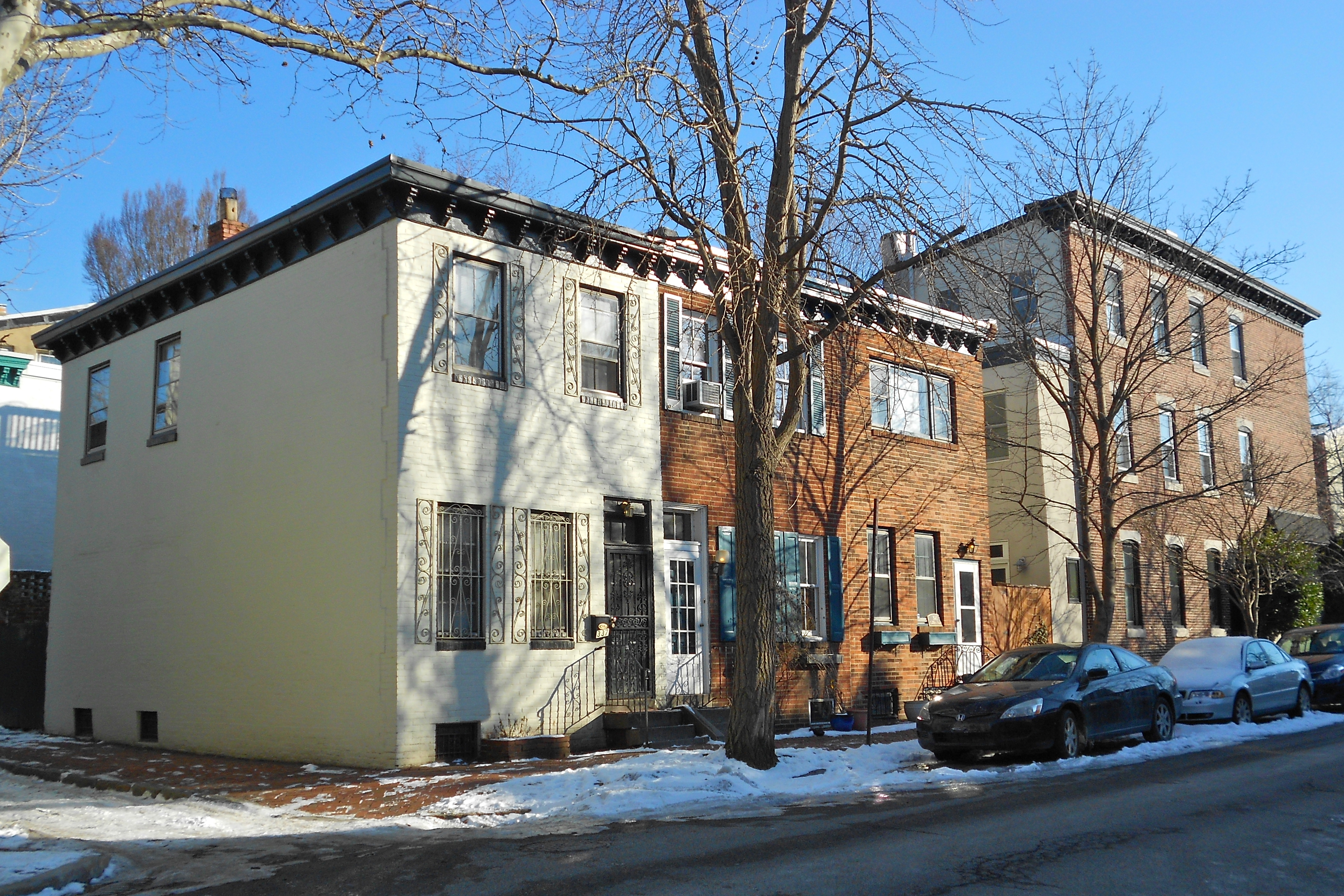 Houses in the Ramcat Historic District listed on the NRHP on January 8, 1986. The district is roughly bounded by Market, 23rd, and Bainbridge Streets, and railroad yards in (or just west of) the Rittenhouse Square West neighborhood of Philadelphia